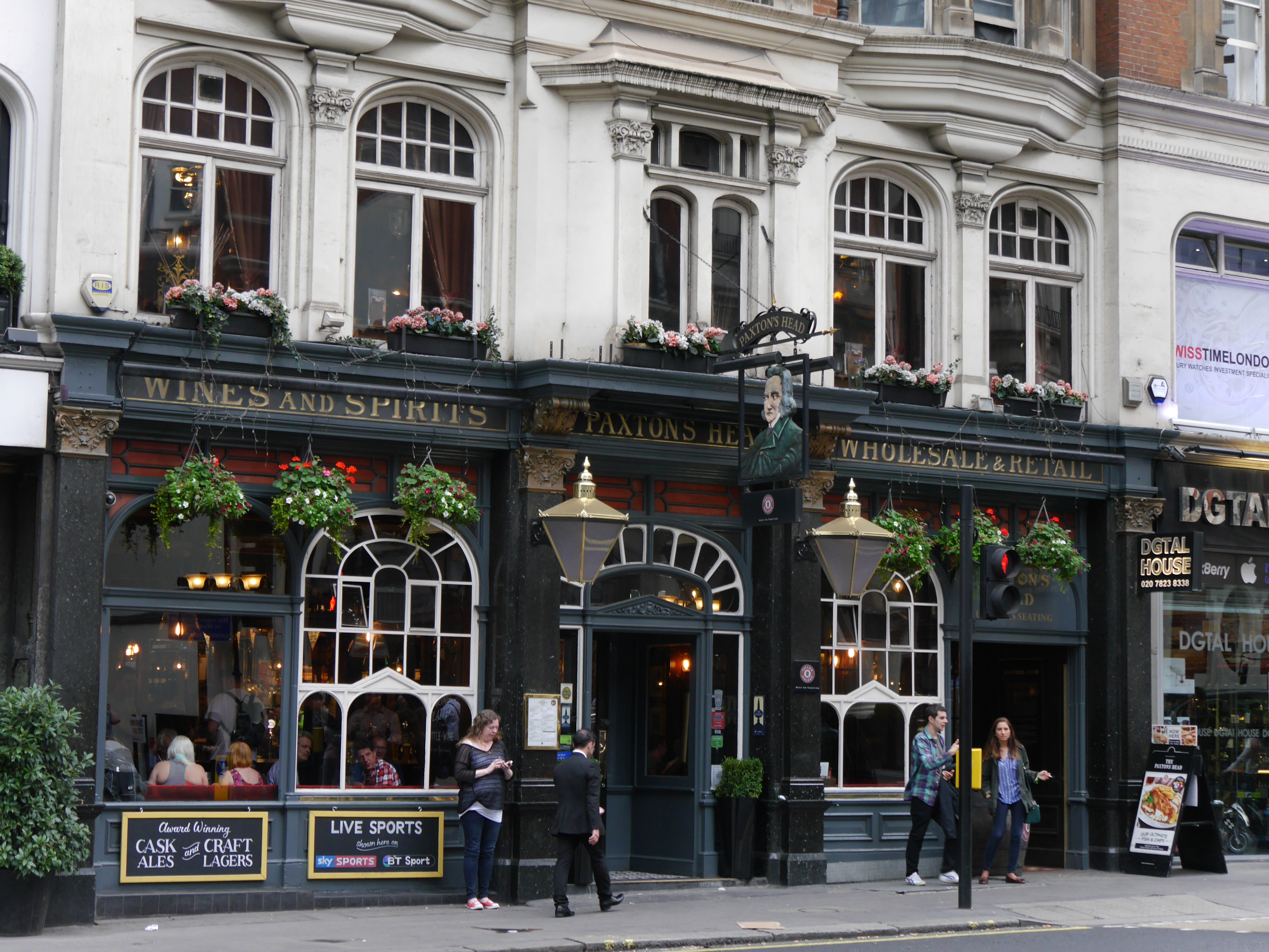 Paxtons Head, September 2016